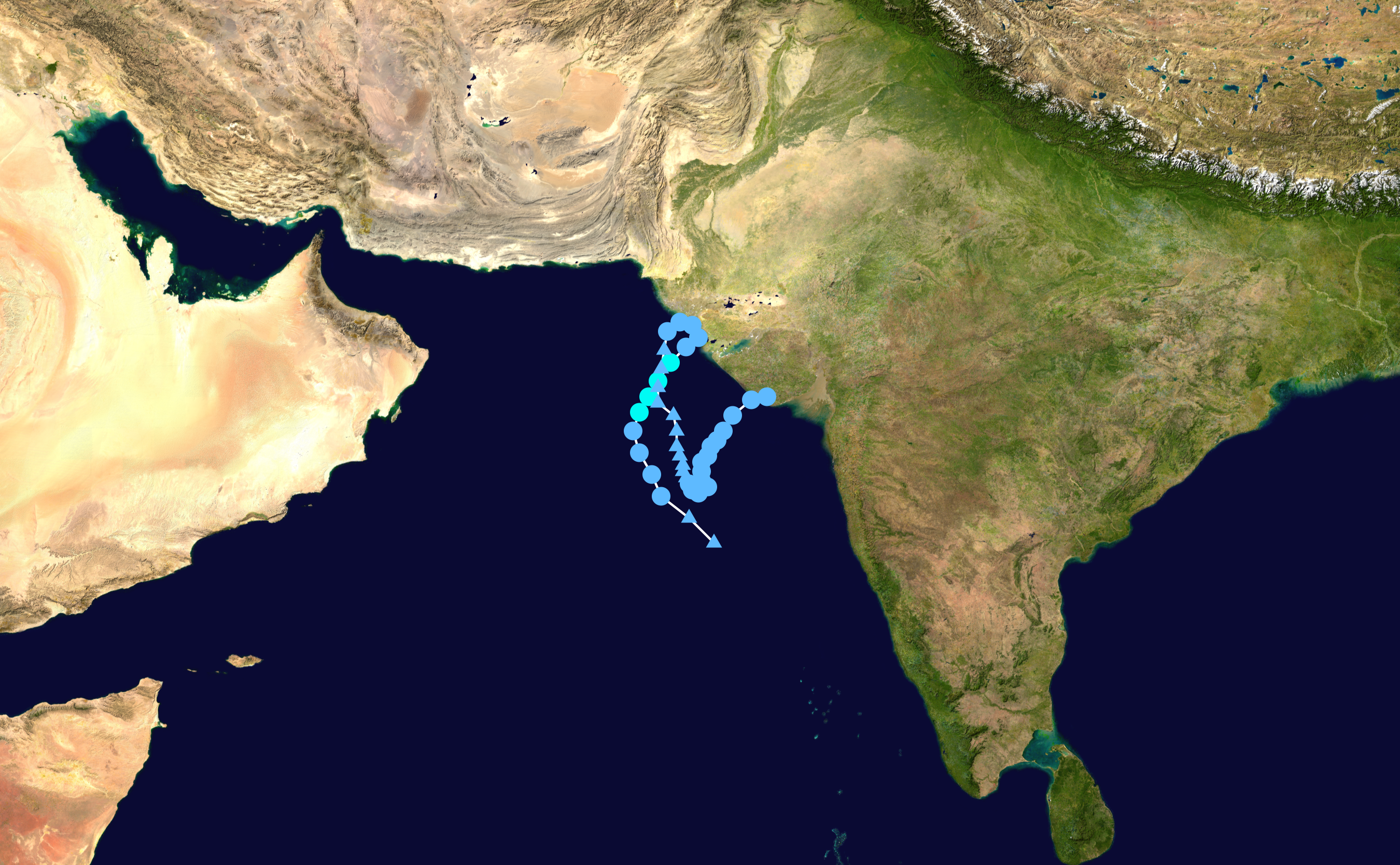 Onil 2004 track. Uses the color scheme from the Saffir-Simpson Hurricane Scale.